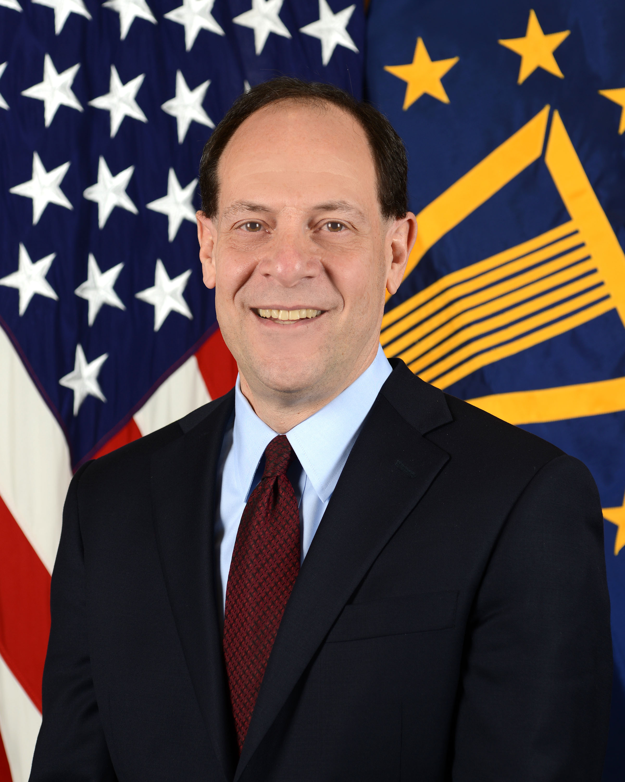 Glenn Fine, Department of Defense Inspector General, poses for his official portrait in the Army portrait studio at the Pentagon in Arlington, Virginia, Jan. 14, 2016. (U.S. Army photo by Monica King/Released)